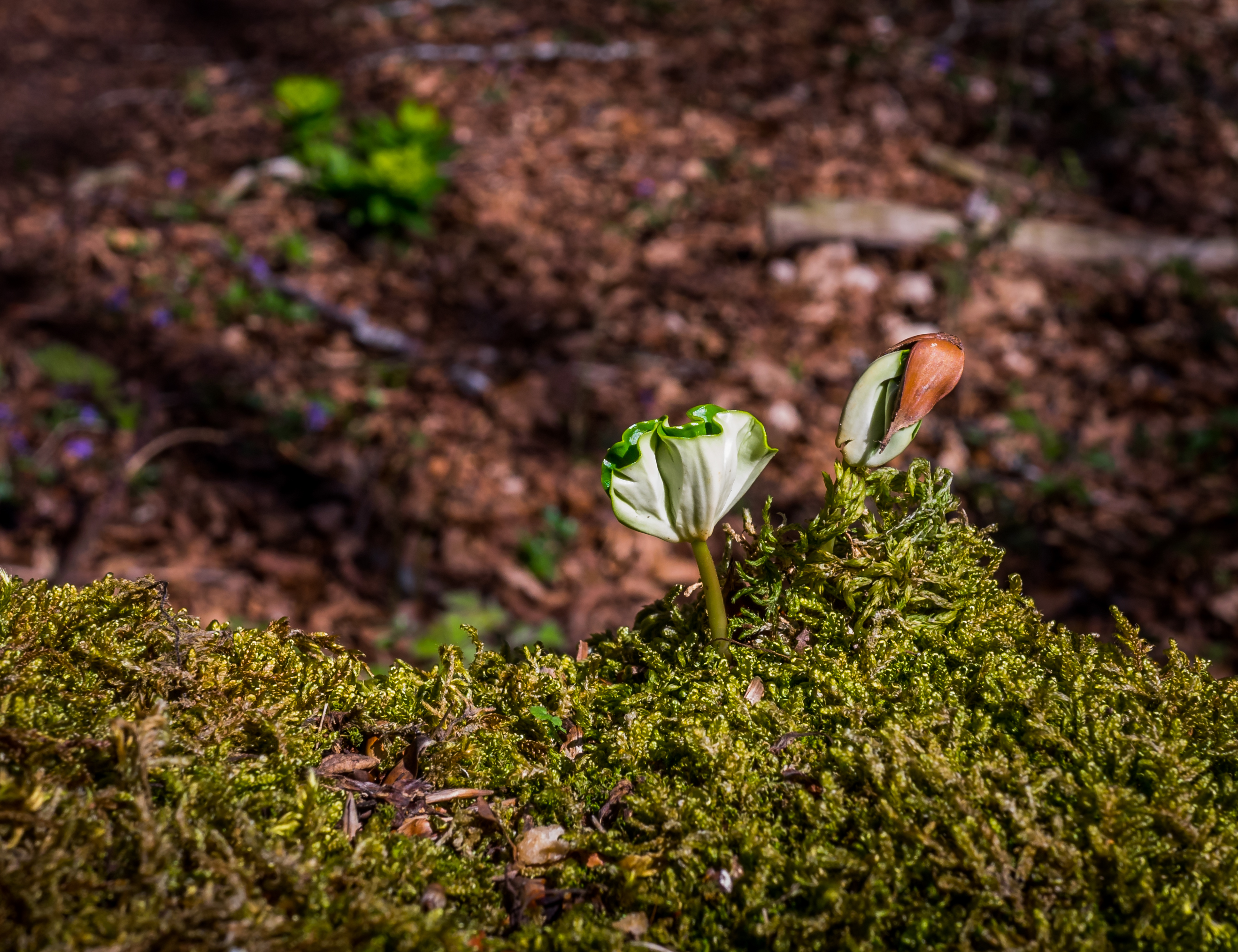 Beech seedlings growing on a chalky rock covered with moss. Entzia mountain range, Navarre, Spain